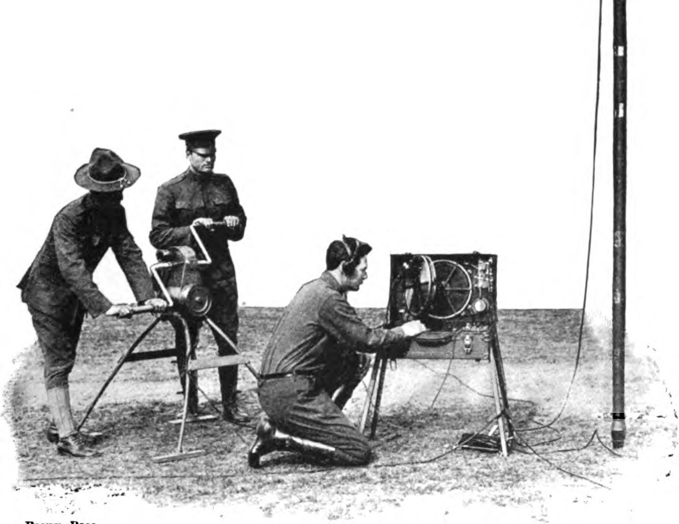 A portable military wireless station in 1922, operated by members of the 101st Signal Battalion, 2nd Corps, US National Guard Signal Corps, on field training near Peekskill, New York. Two guardsmen crank a hand-powered electric generator (left) as a third (center) operates an early vacuum tube transmitter sending text messages in Morse code using a telegraph key. The source (p. 58) says the equipment is an SCR-99, which can transmit on wavelengths between 900 m (330 kHz) and 1500 m (200 kHz). It uses VT-1 triodes for receiving and VT-2 triodes for transmitting, and has a range of about 100 miles with 320 V on the transmitting tubes. Caption: TRANSMITTING IN THE FIELD: The power for operating this equipment is furnished by the hand generator. Note the collapsible metal mast that serves as a support for an umbrella antenna Alterations to image: removed caption text from background.